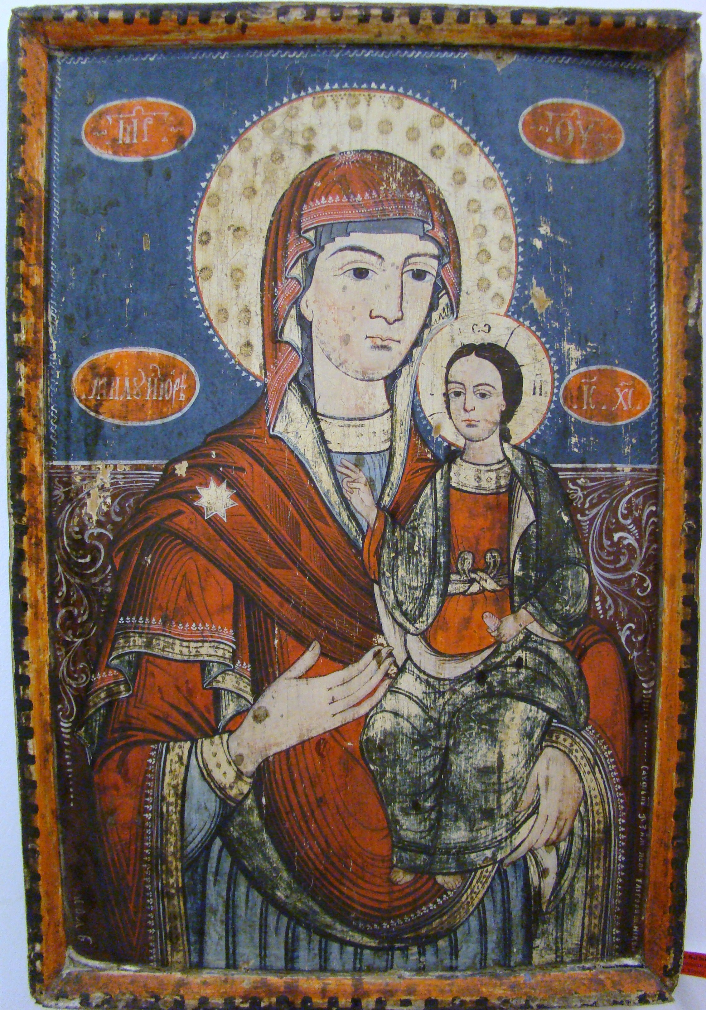 Icoană împărătească a bisericii de lemn din Petea, județul Mureș